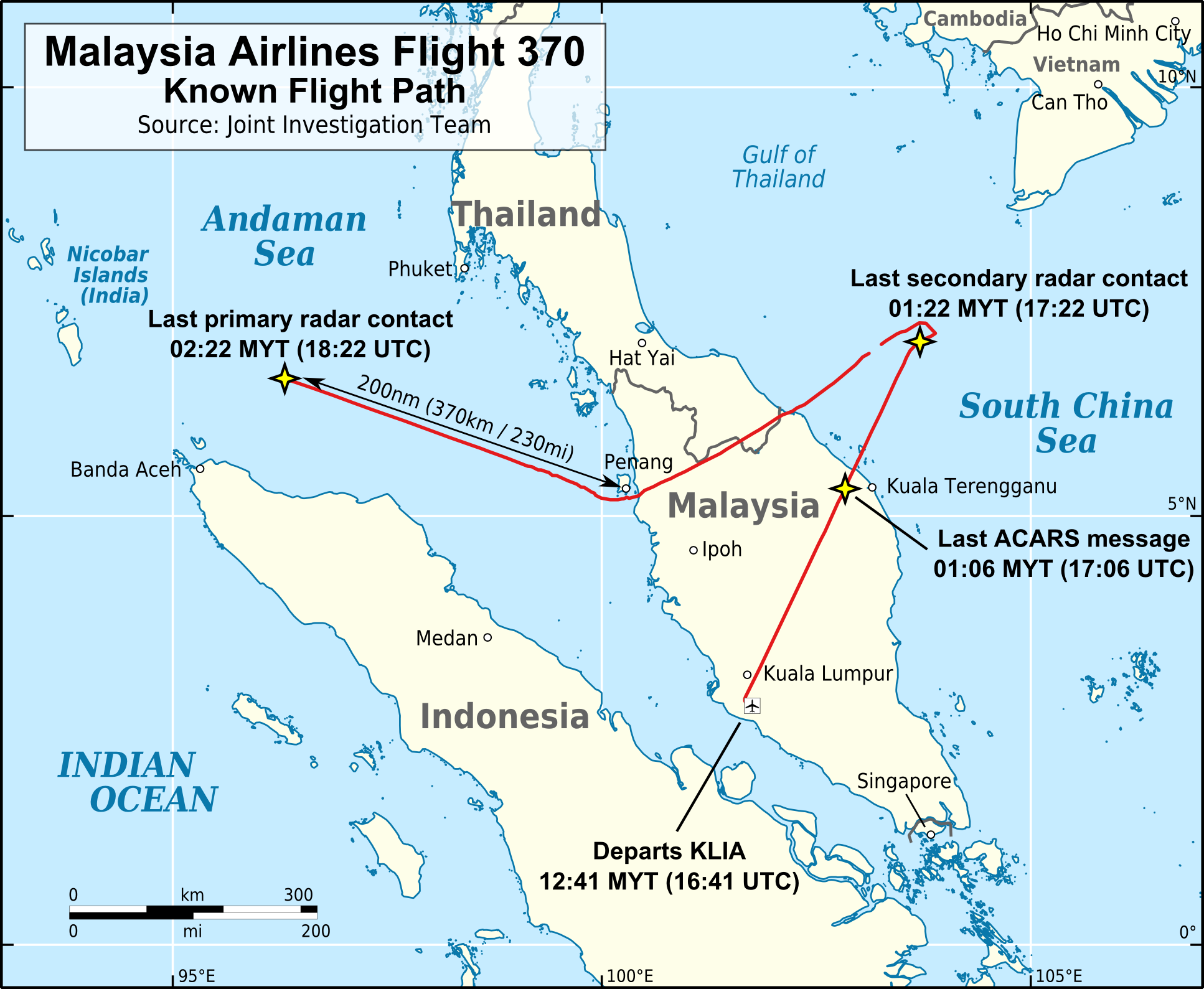 Map of the flight path of Malaysia Airlines Flight 370.